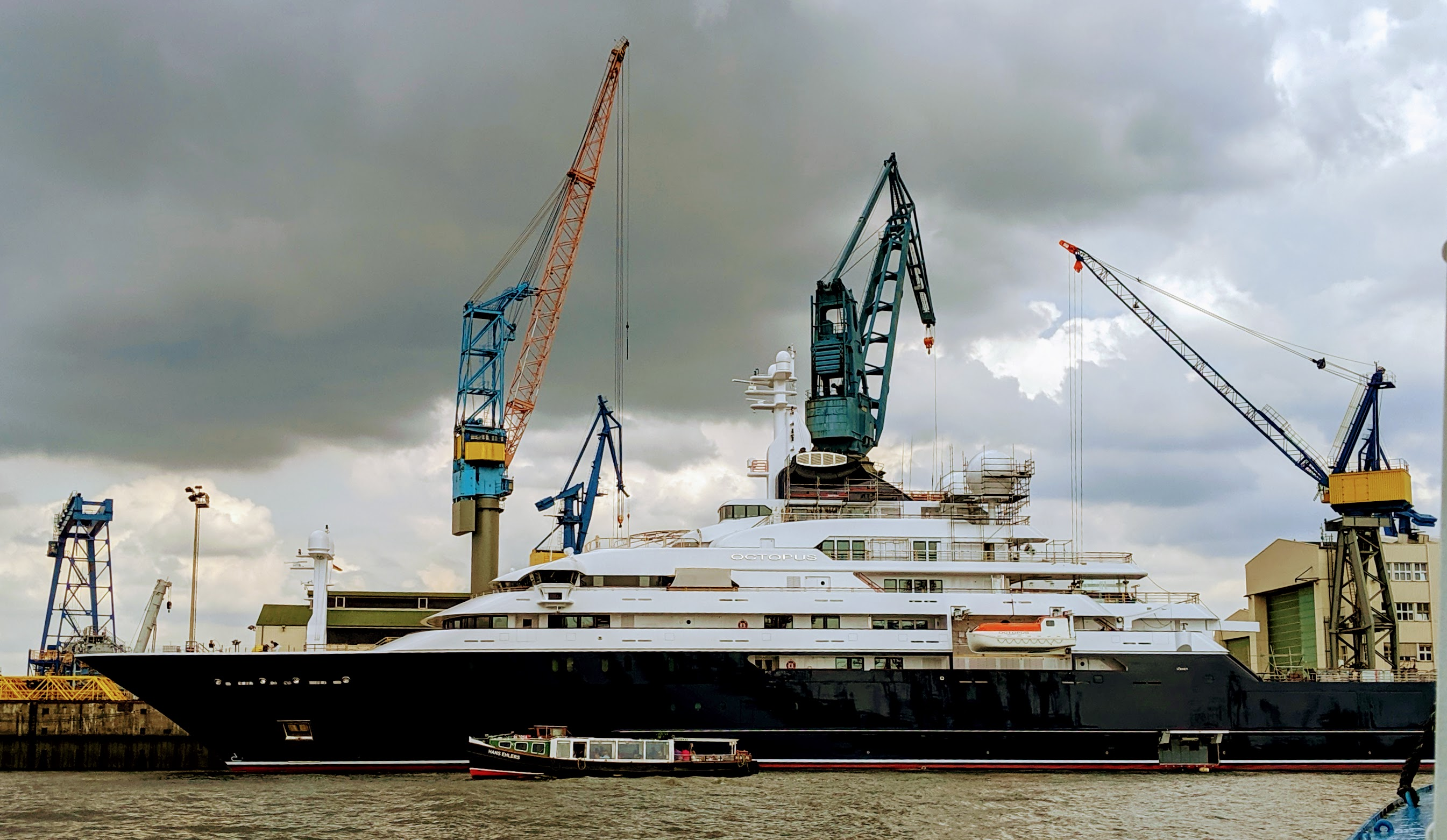 Superyacht Octopus in Hamburg harbor, 2019 August 1st